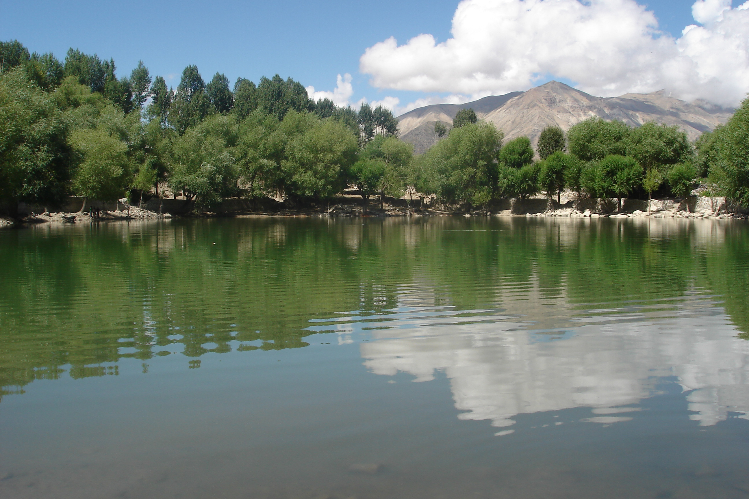 A view of the Nako lake in the month of August 2008